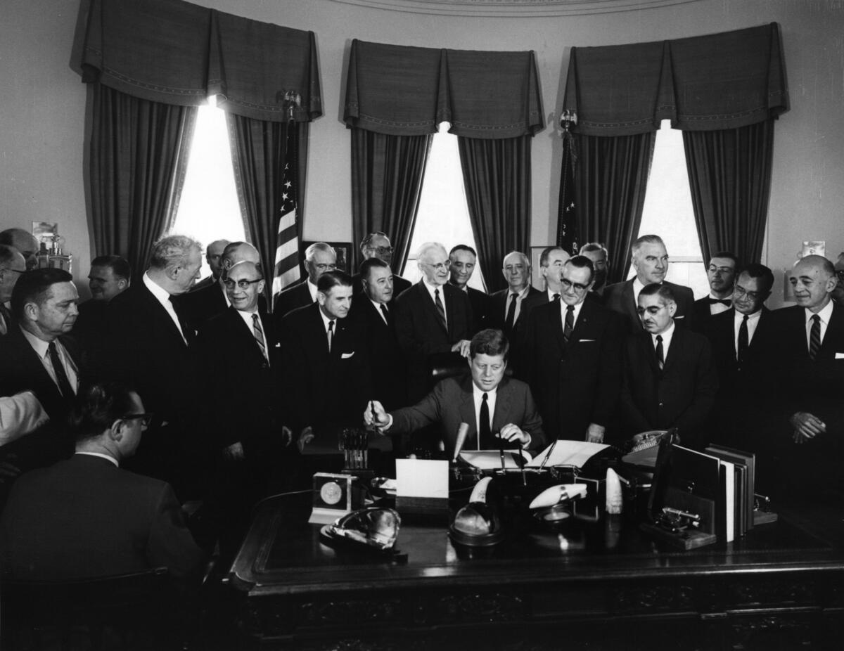 President John F. Kennedy signs HR 11040, the Communications Satellite Act of 1962